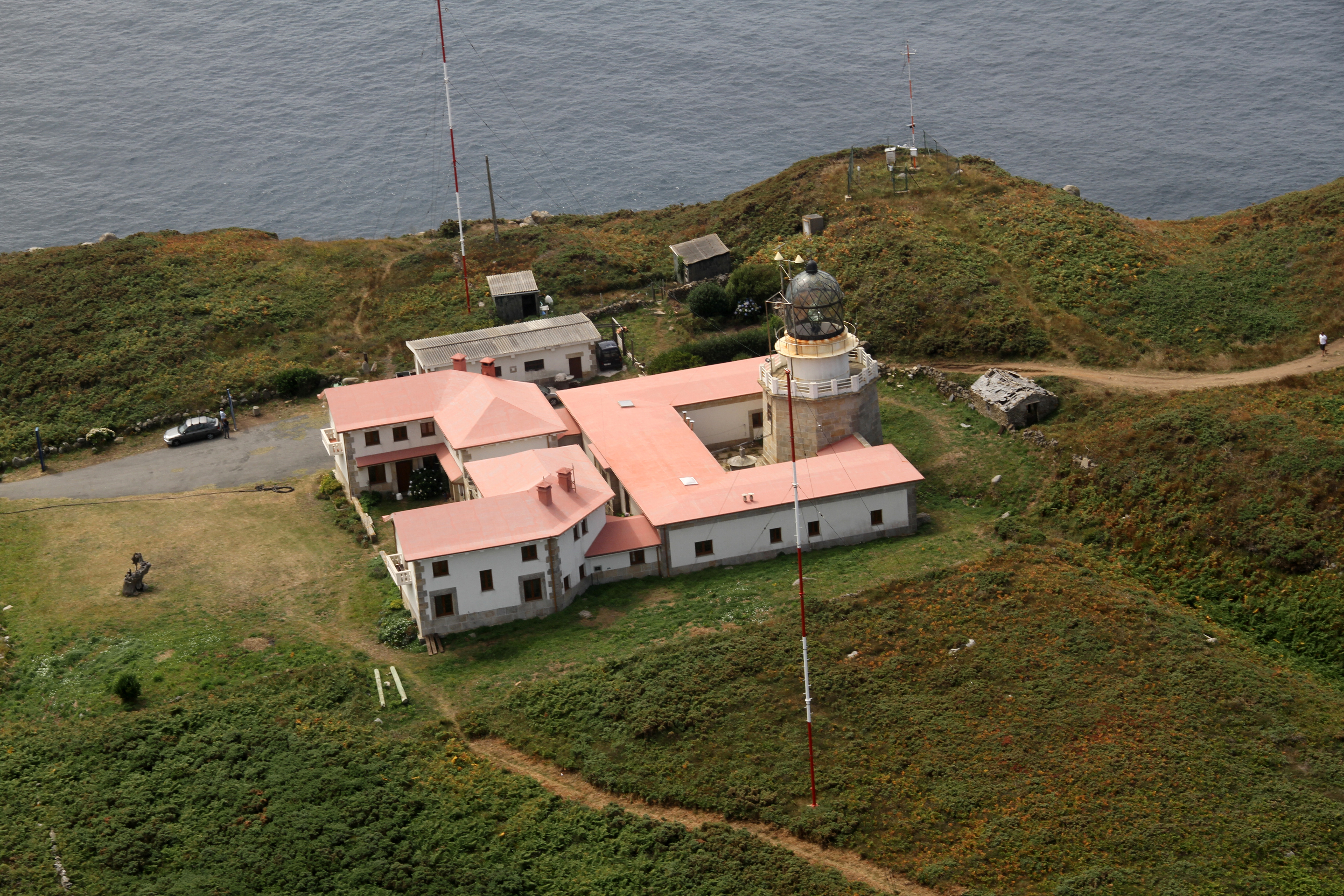 the lighthouse from 1850 and is still iworking